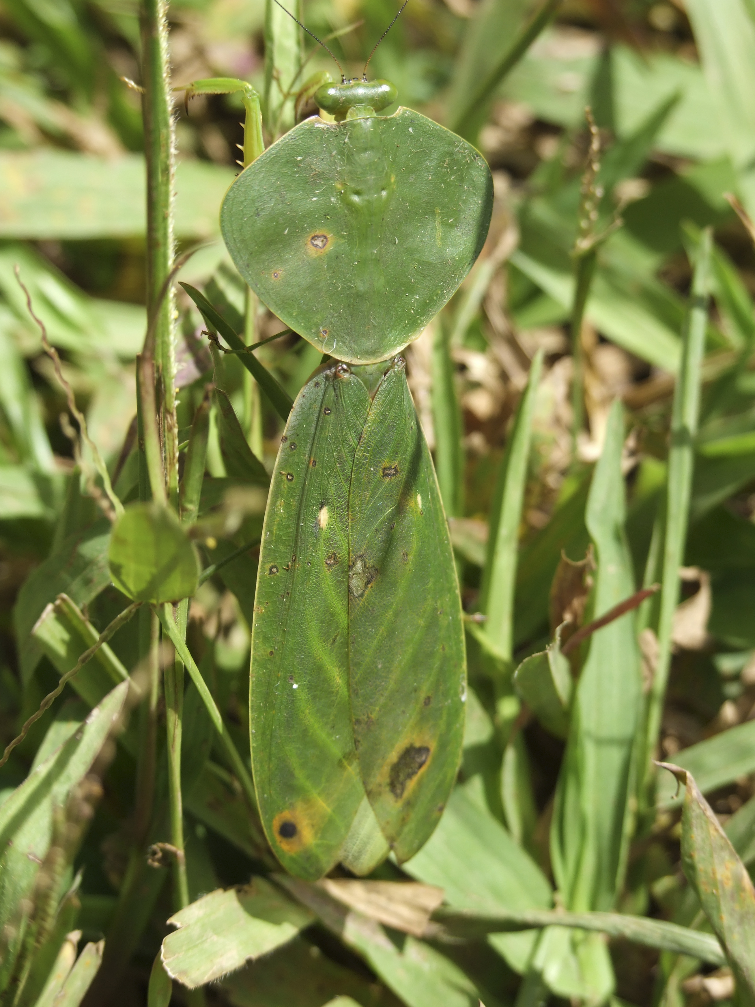 Costa Rican hooded/leaf mantis with leaf damage/decay splotch markings (from the Osa Peninsula region). Choeradodis sp.